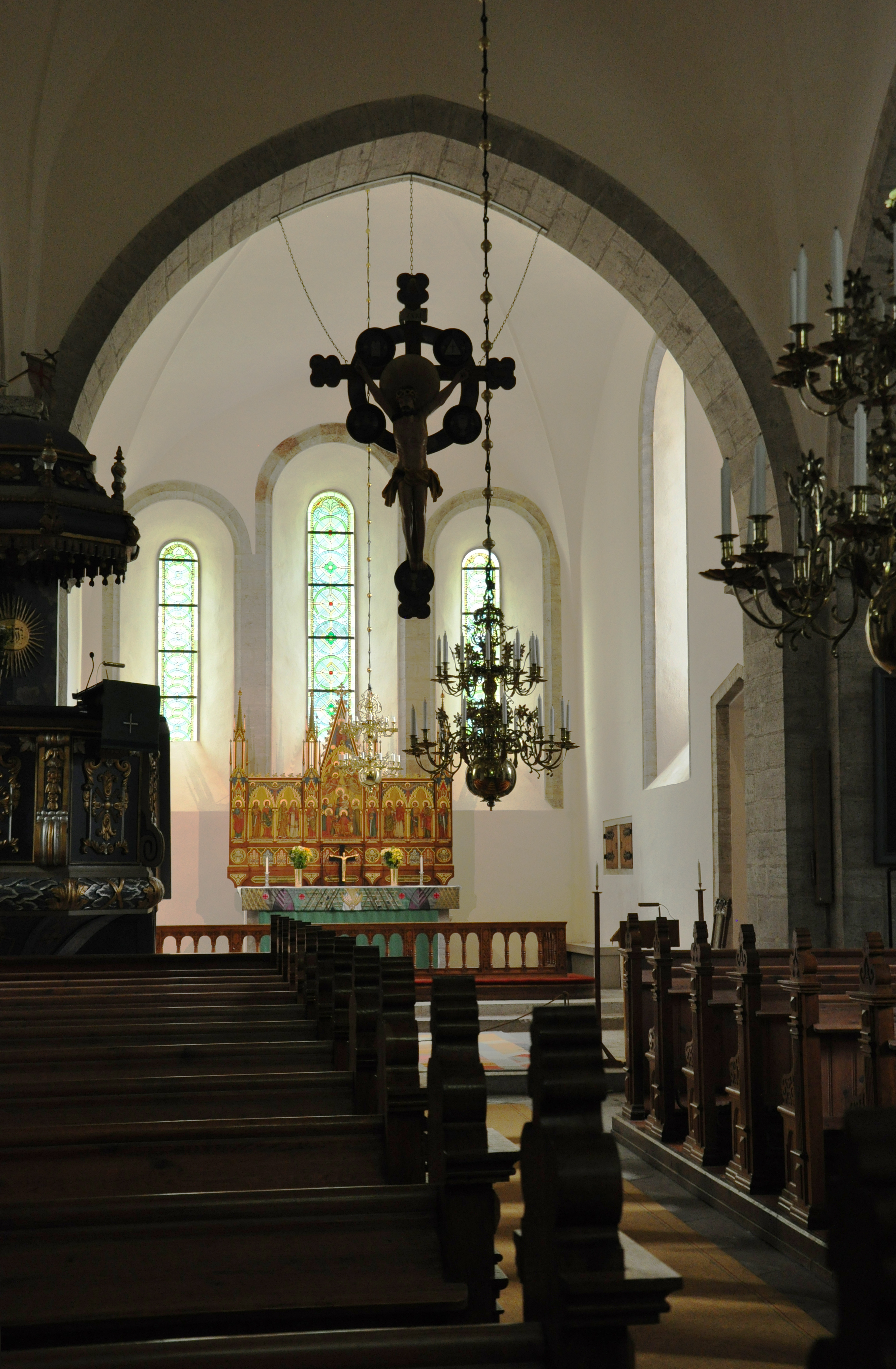 Built 1215-1255.